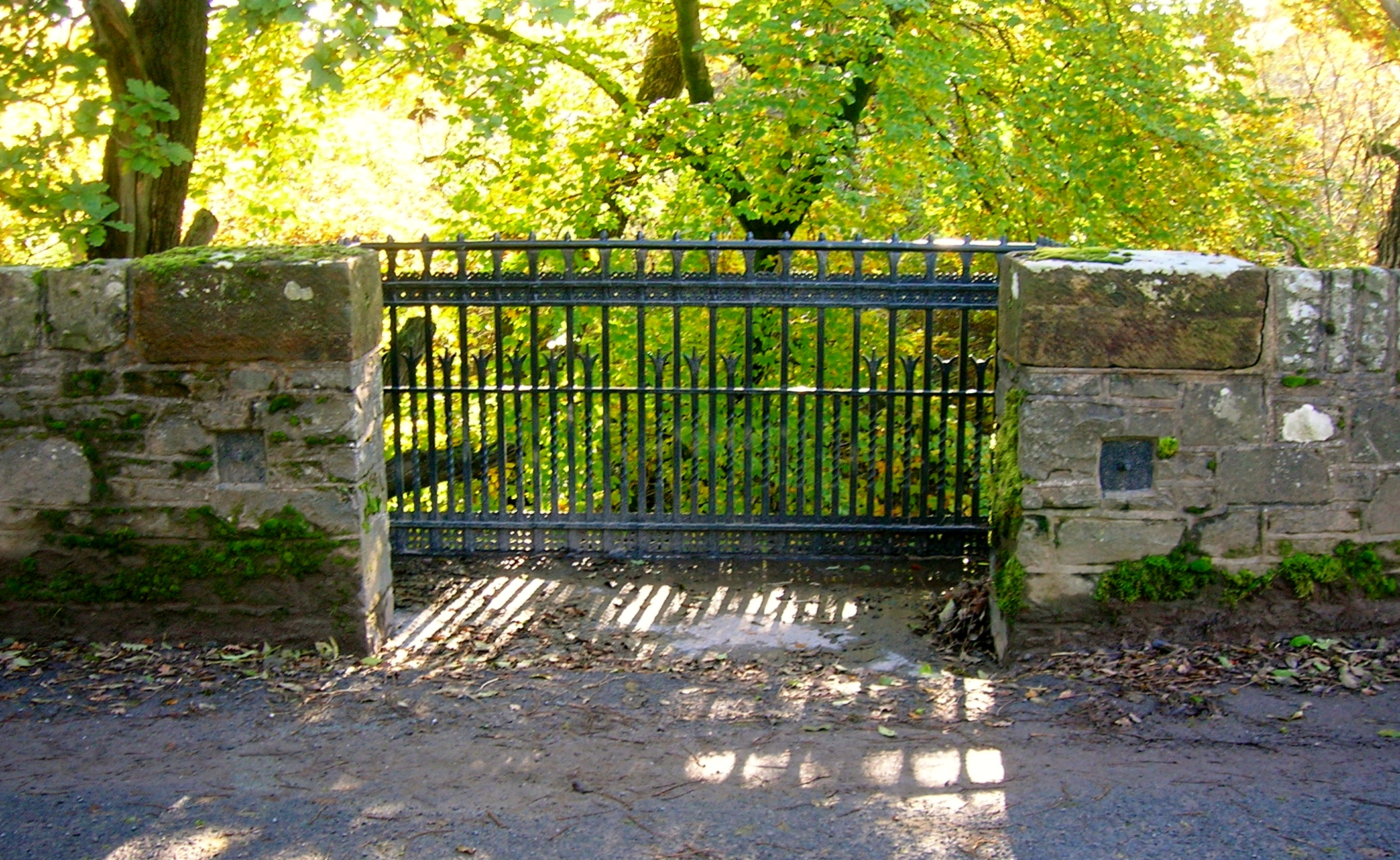 The viewing platform of the Hind Gill Burn gulley at Archbank Bridge, Moffat, Scotland